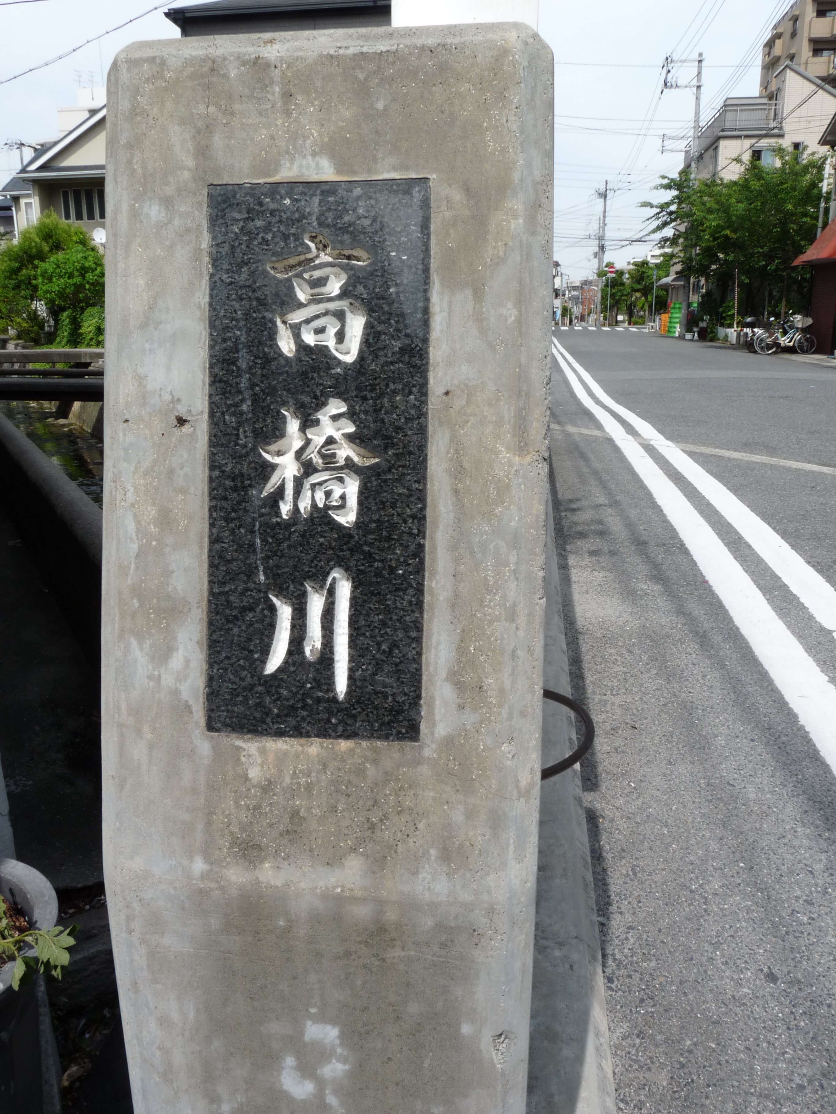 Takahashi river, Kobe, Hyogo, Japan